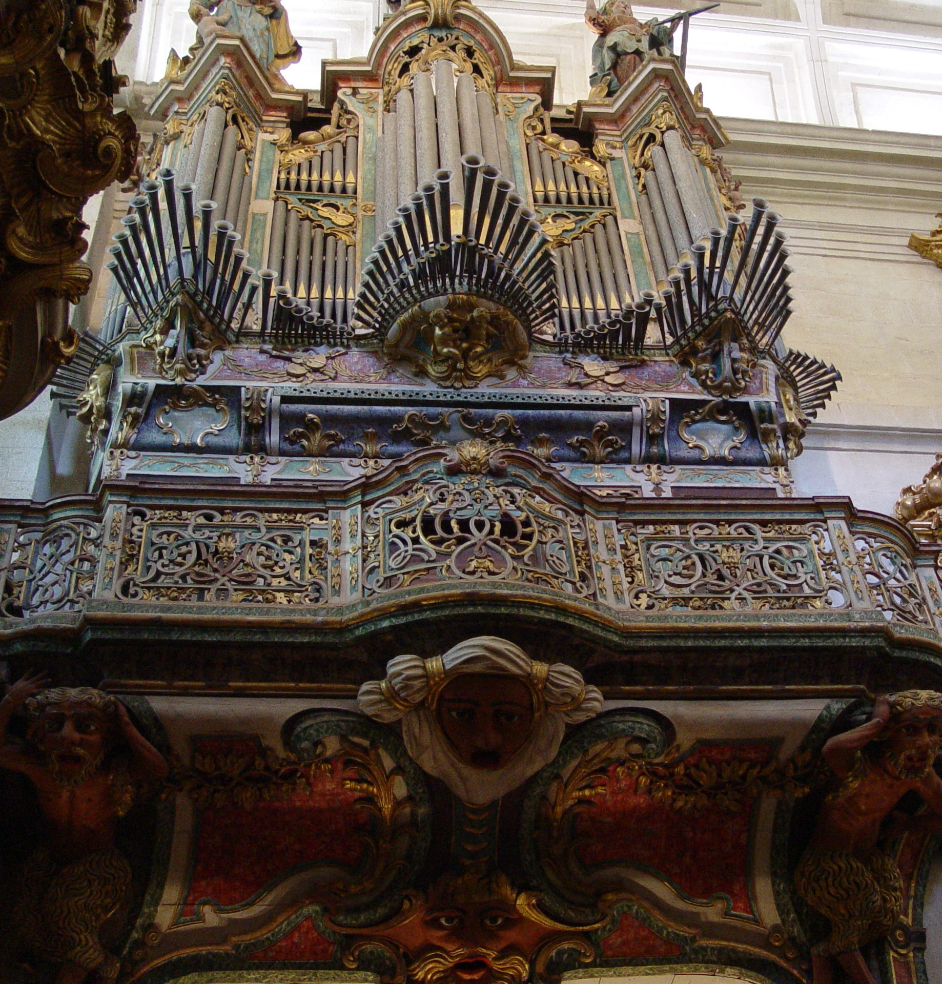 Pipe organ in Tibães Church, Braga, Portugal.